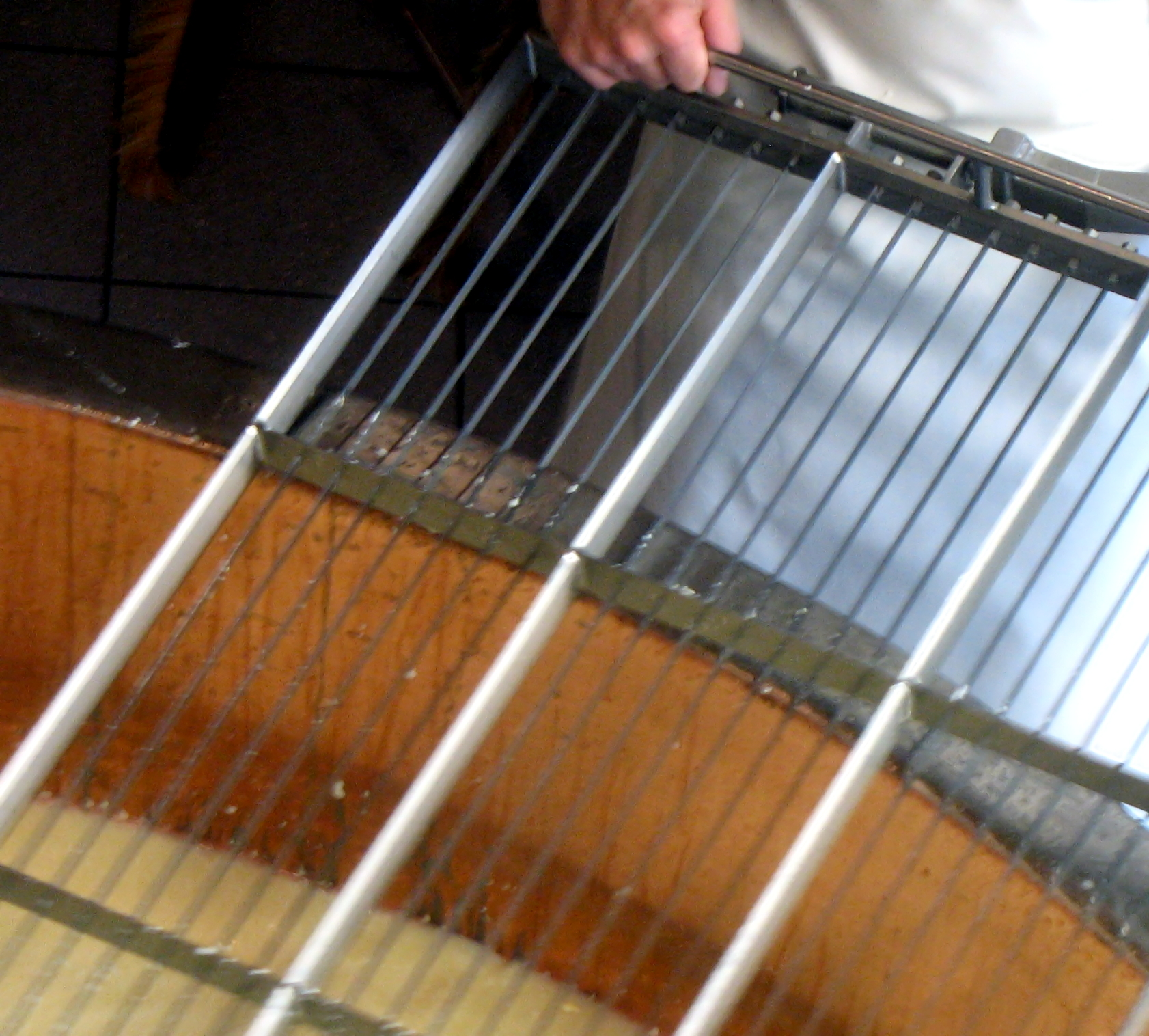 Production of Gruyère cheese at the cheesemaking factorie of Gruyères , Switzerland, Canton of Fribourg. This image was improved or created by the Wikigraphists of the Graphic Lab (fr). You can propose images to clean up, improve, create or translate as well.